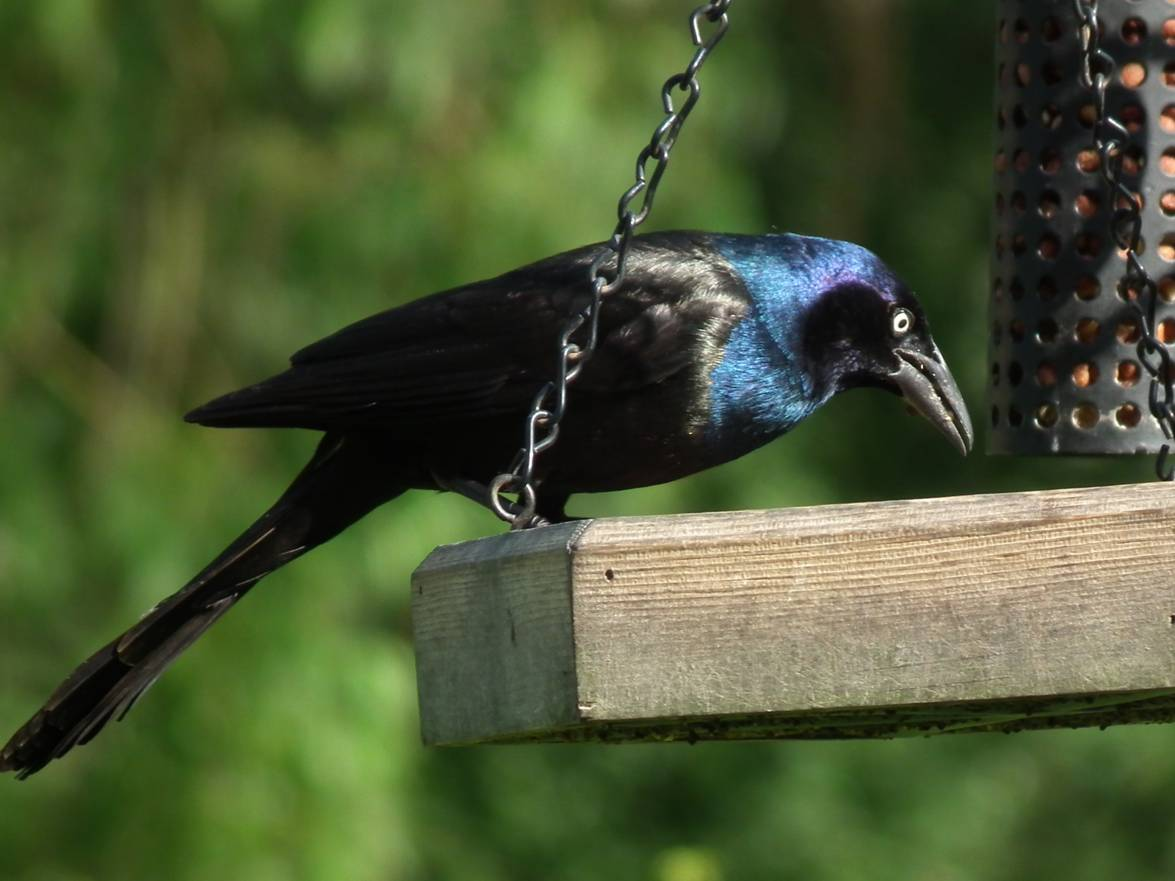 Common Grackle at feeder